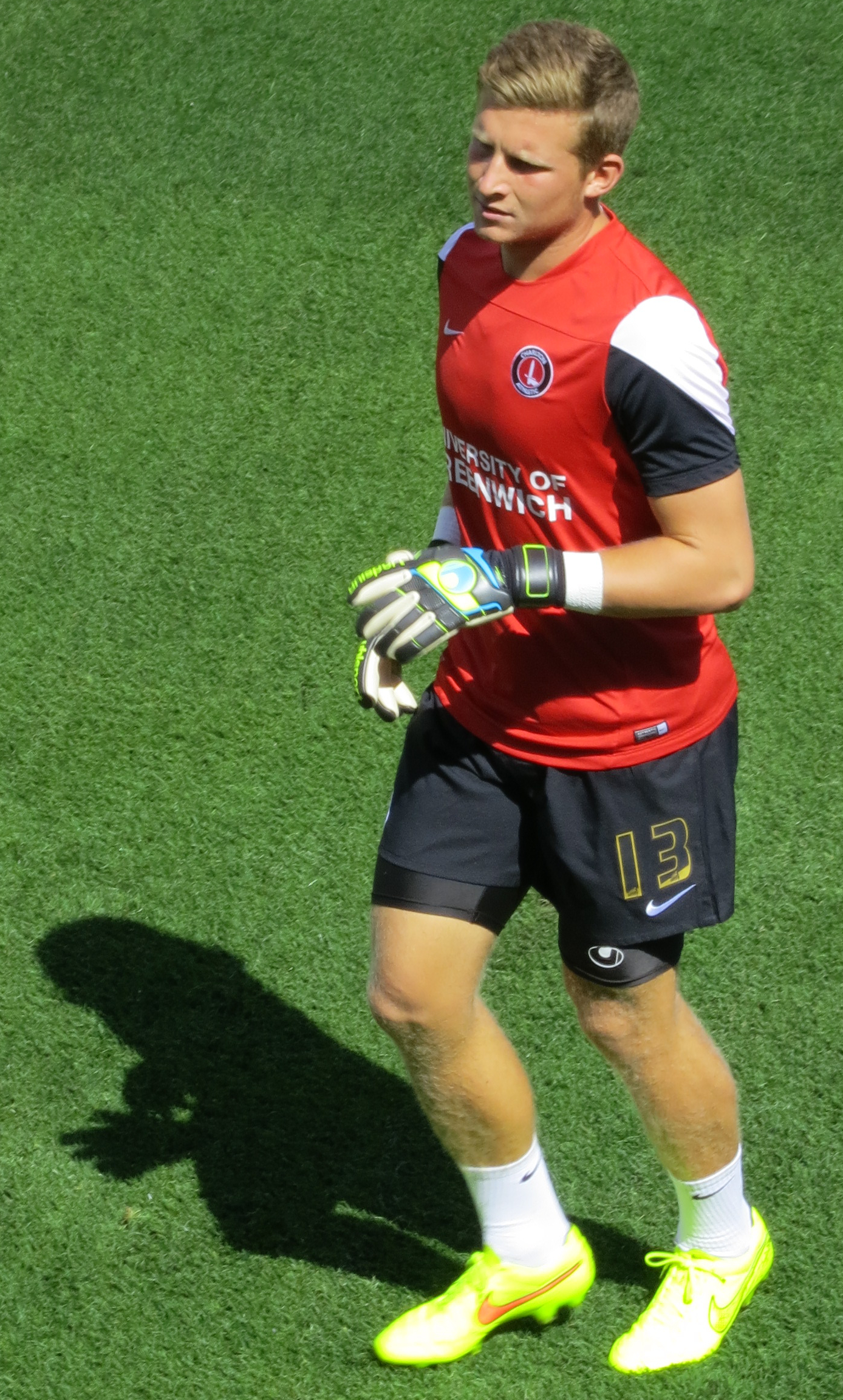 A photograph of Dillon Phillips warming up for Charlton Athletic in 2014.